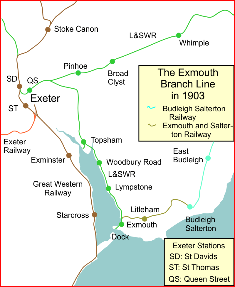 Diagram of the Exmouth branch Raqilway, Devon, UK in 1903